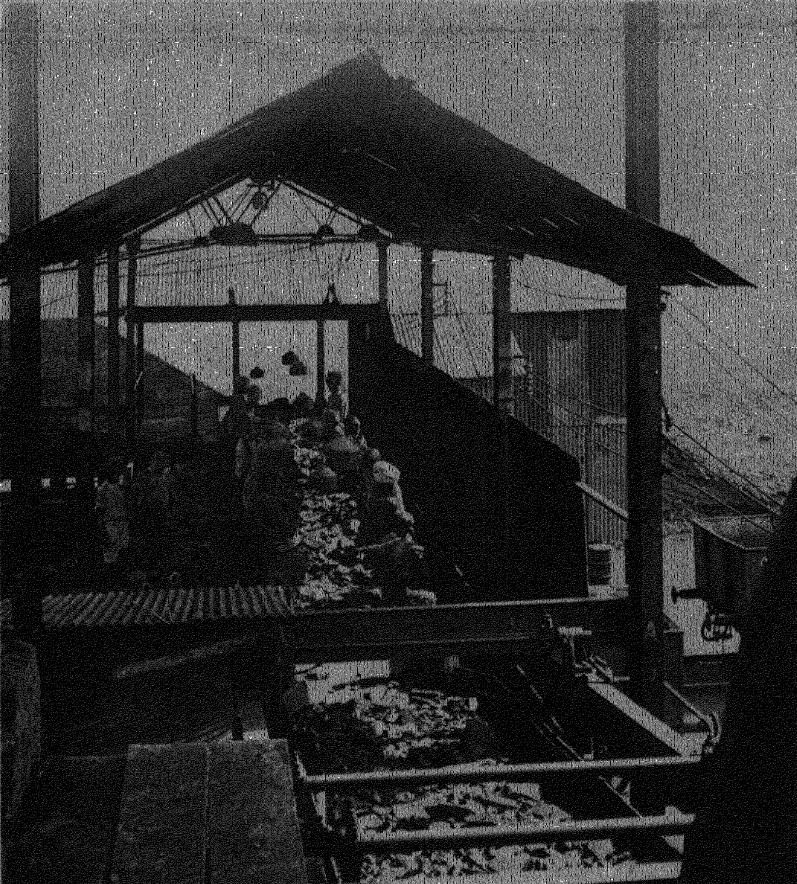 Shaker chute for sorting coal. Singareni coal field, Hyderabad state